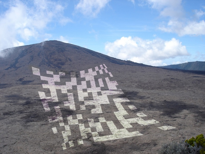 from the CrossWorlds series